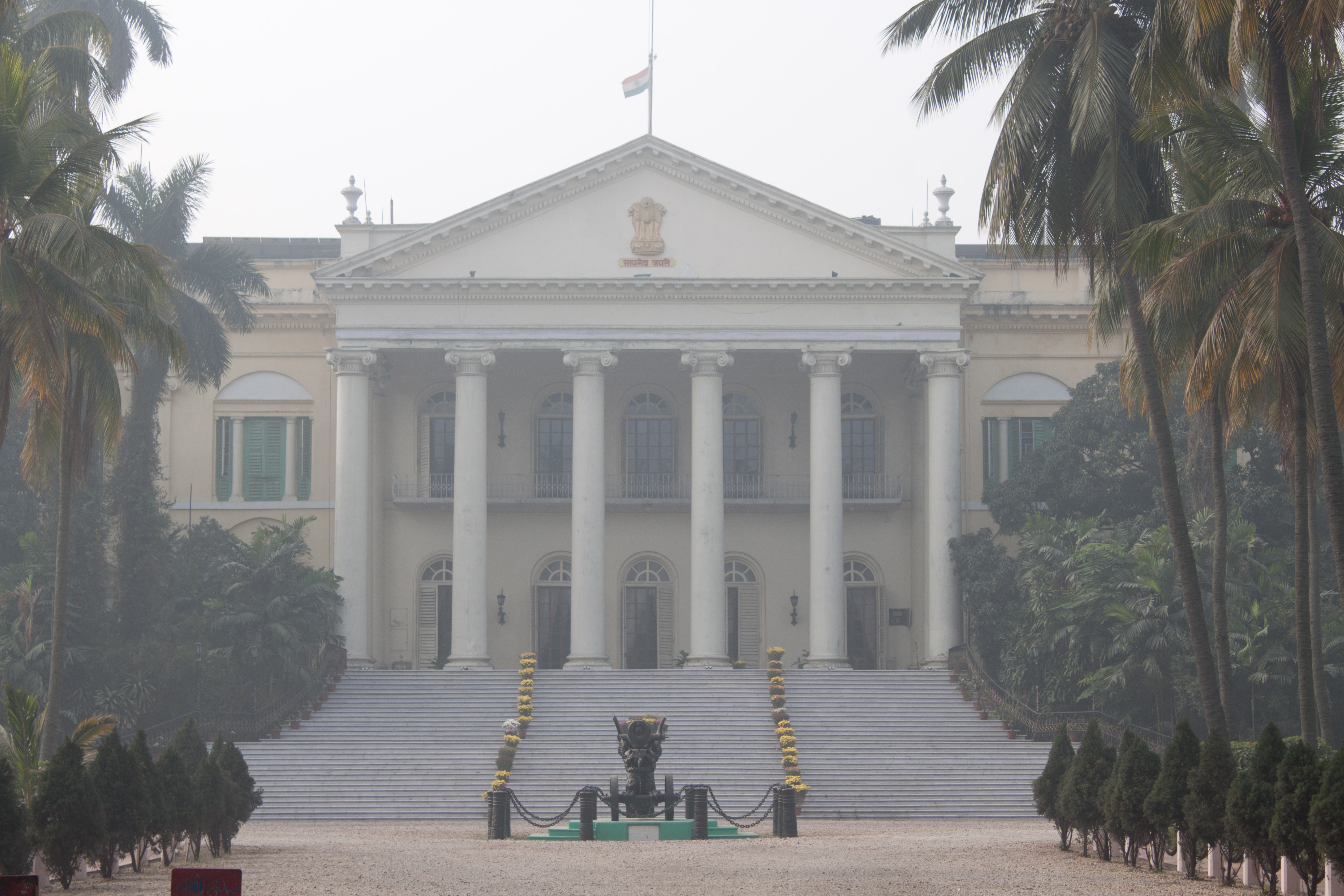 Raj Bhawan